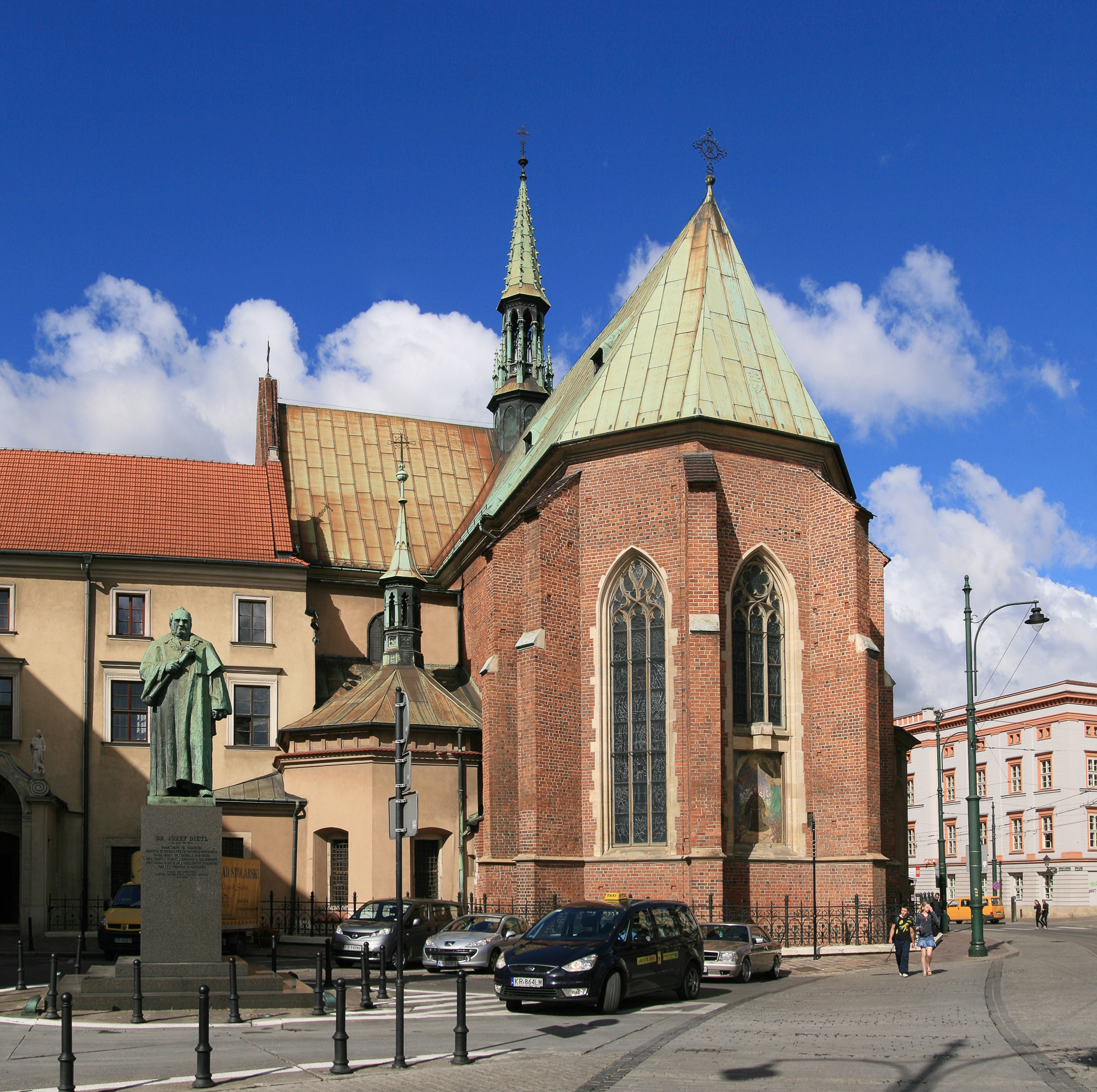 Apse of St. Francis Church, Kraków